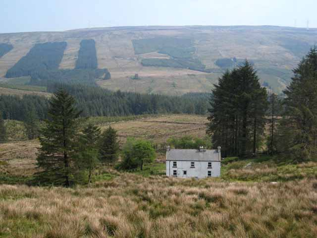 Looking across the Arigna valley A lonely house in what is otherwise known as "the Glen". Turbines of the Corry Mountain wind farm G9019 can be seen at the right hand end of the skyline.